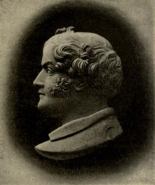 Cameo of Benedetto Pistrucci (b/w illustration)